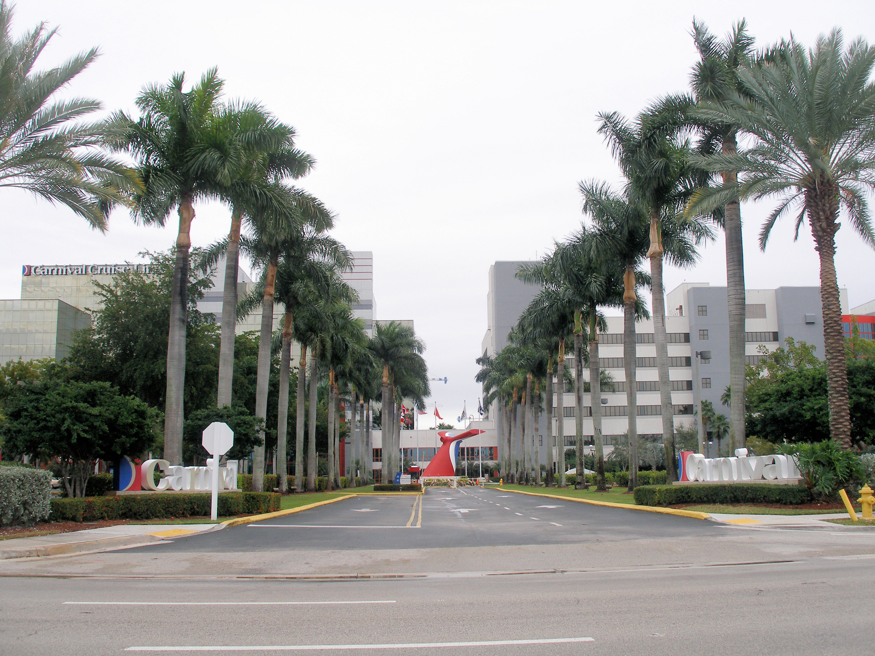 Carnival Place, Carnival Corporation and Carnival Cruise Line headquarters in Doral, Florida. Photographed by user Coolcaesar on January 20, 2008.